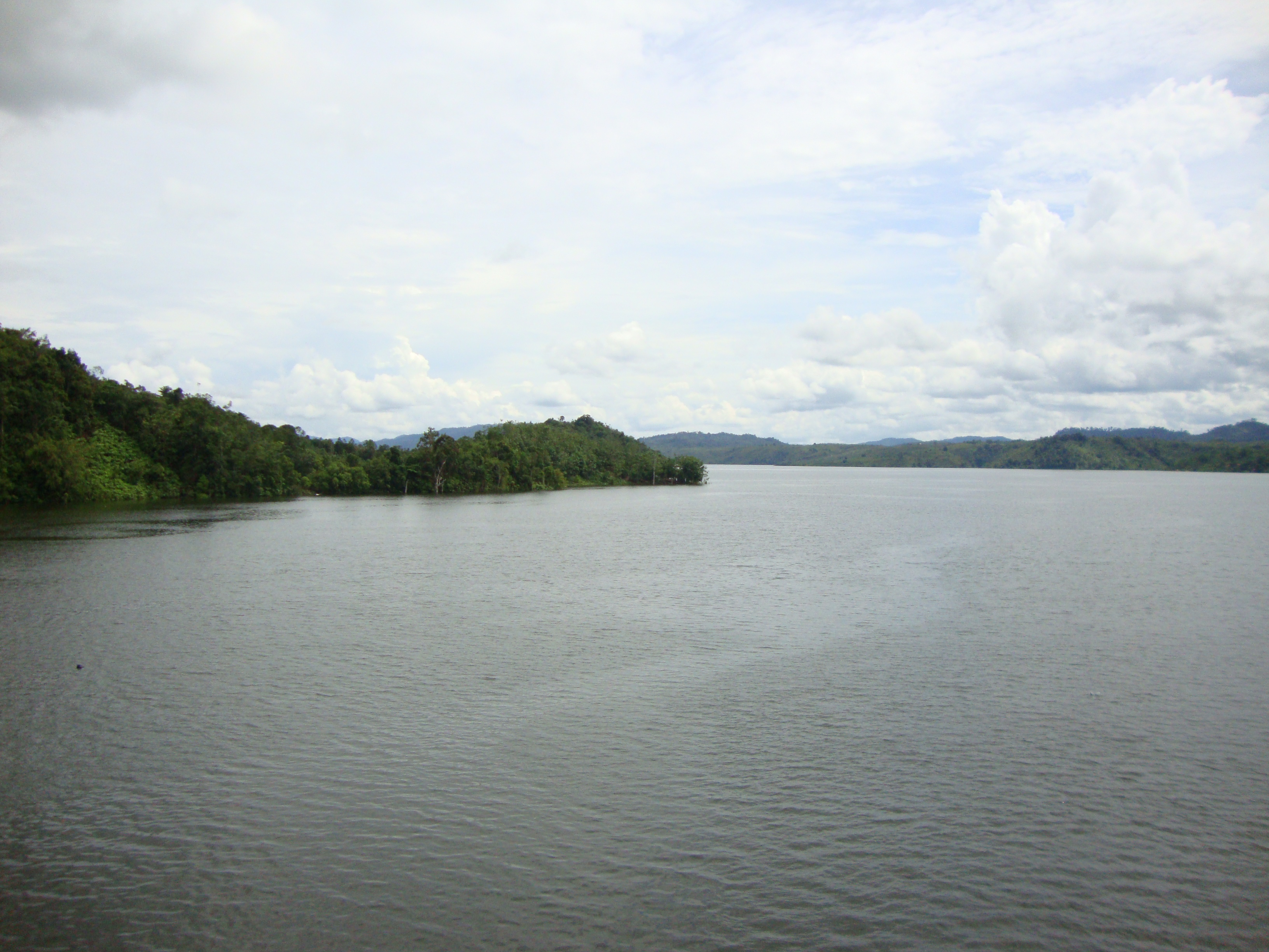 Koto Panjang reservoir (artificial lake) at Kampar regency, Riau, Indonesia